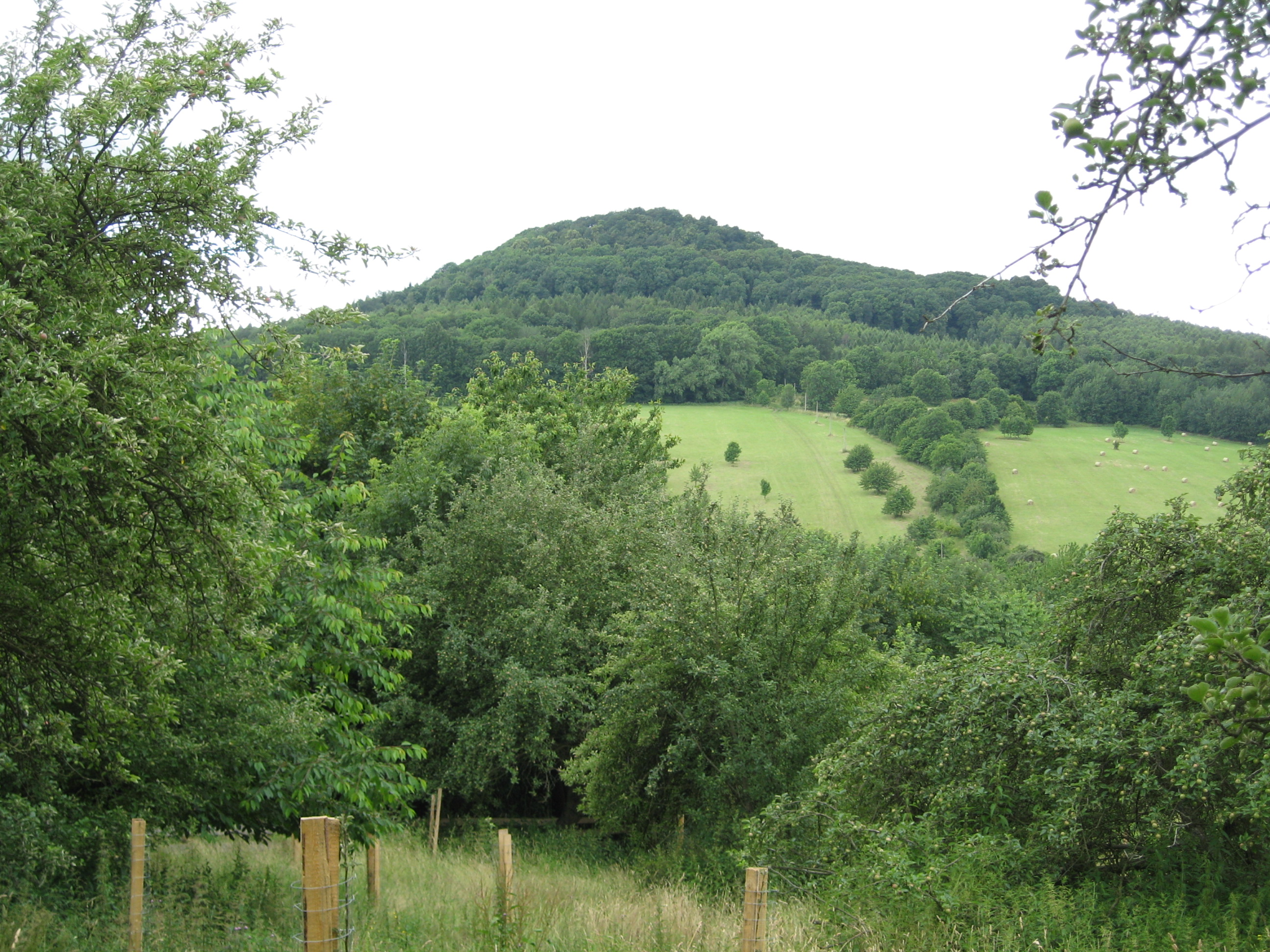 Francká hora from the foot of Milešovka